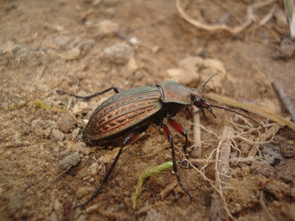 Carabus arcensis